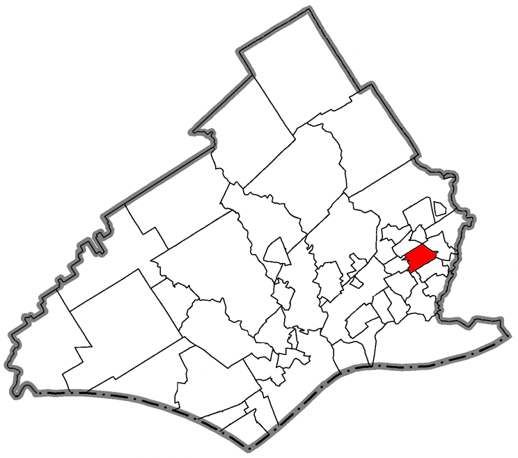 Showing the location within Delaware County, Pennsylvania.